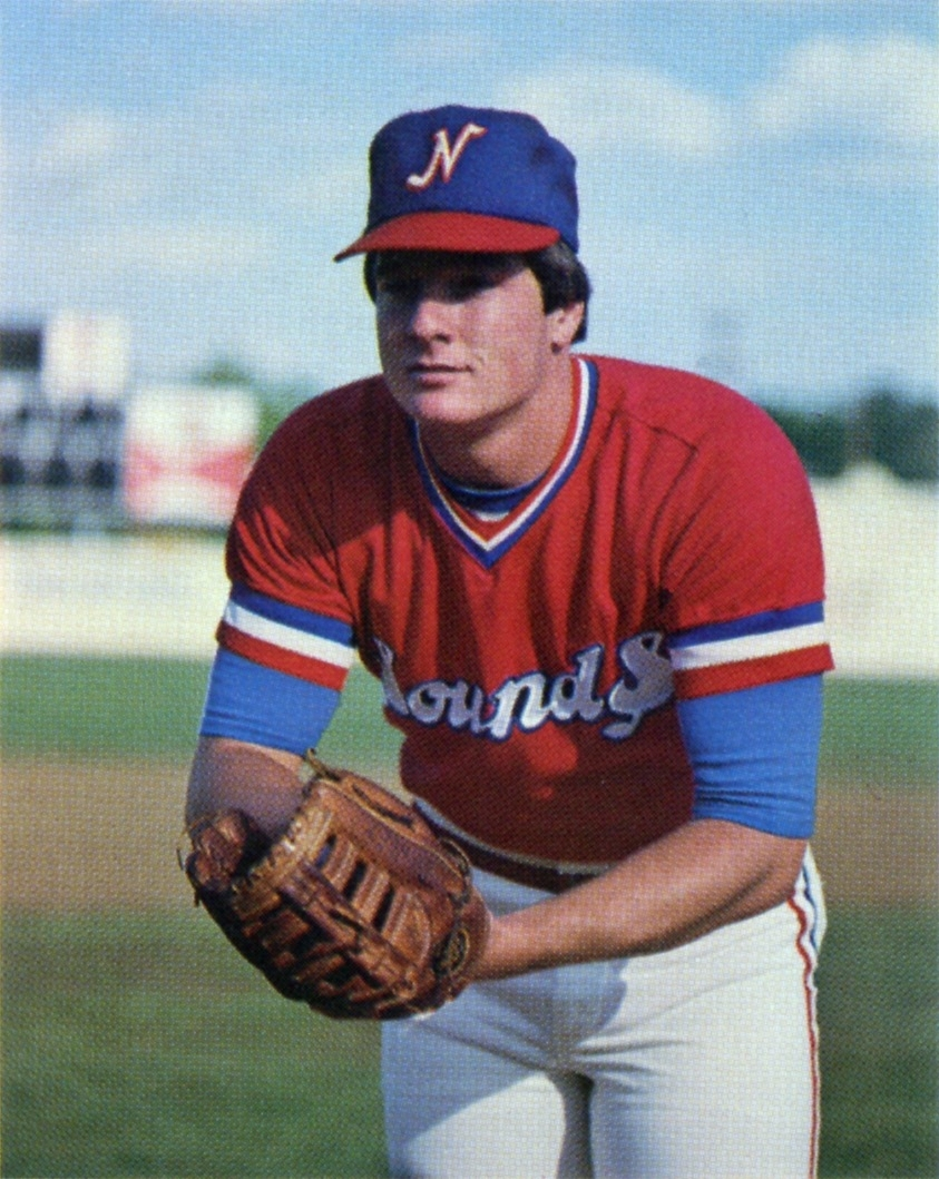 Pitcher Bill Dawley of the 1979 Nashville Sounds Minor League Baseball team of the Southern League